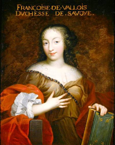 Françoise Madeleine d'Orléans, Mademoiselle de Valois prior to her marriage